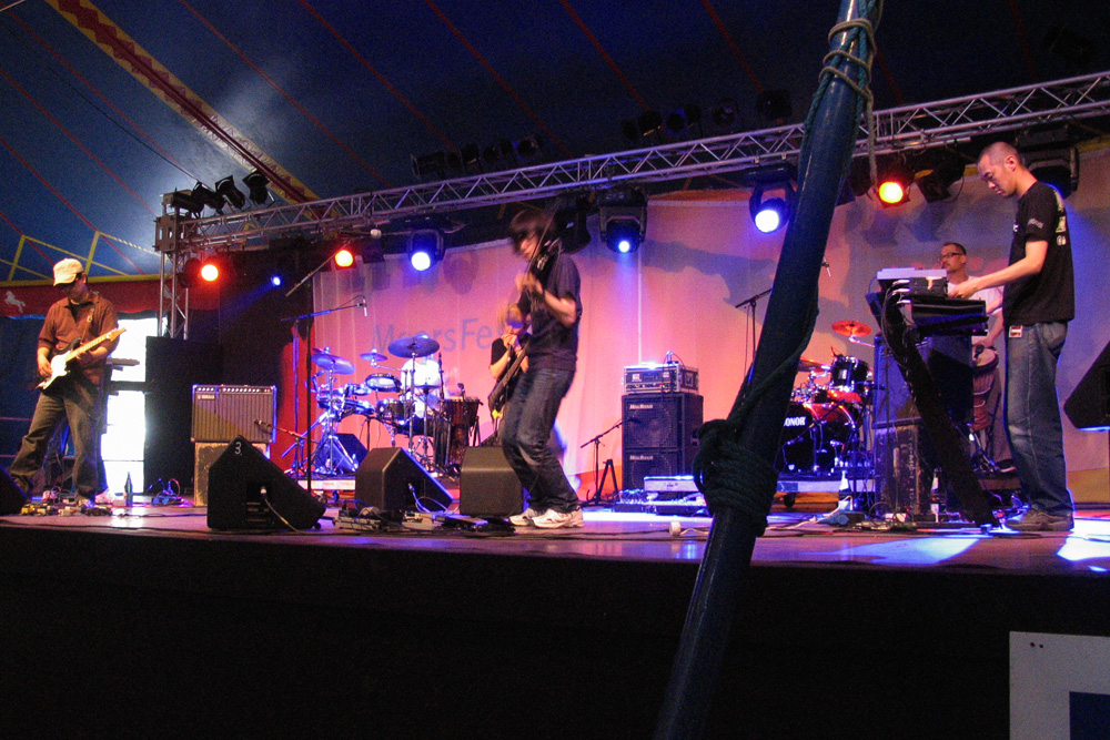 Rovo at Moers Festival 2004 own photo, may 29, 2004 photo: nomo/michael hoefner